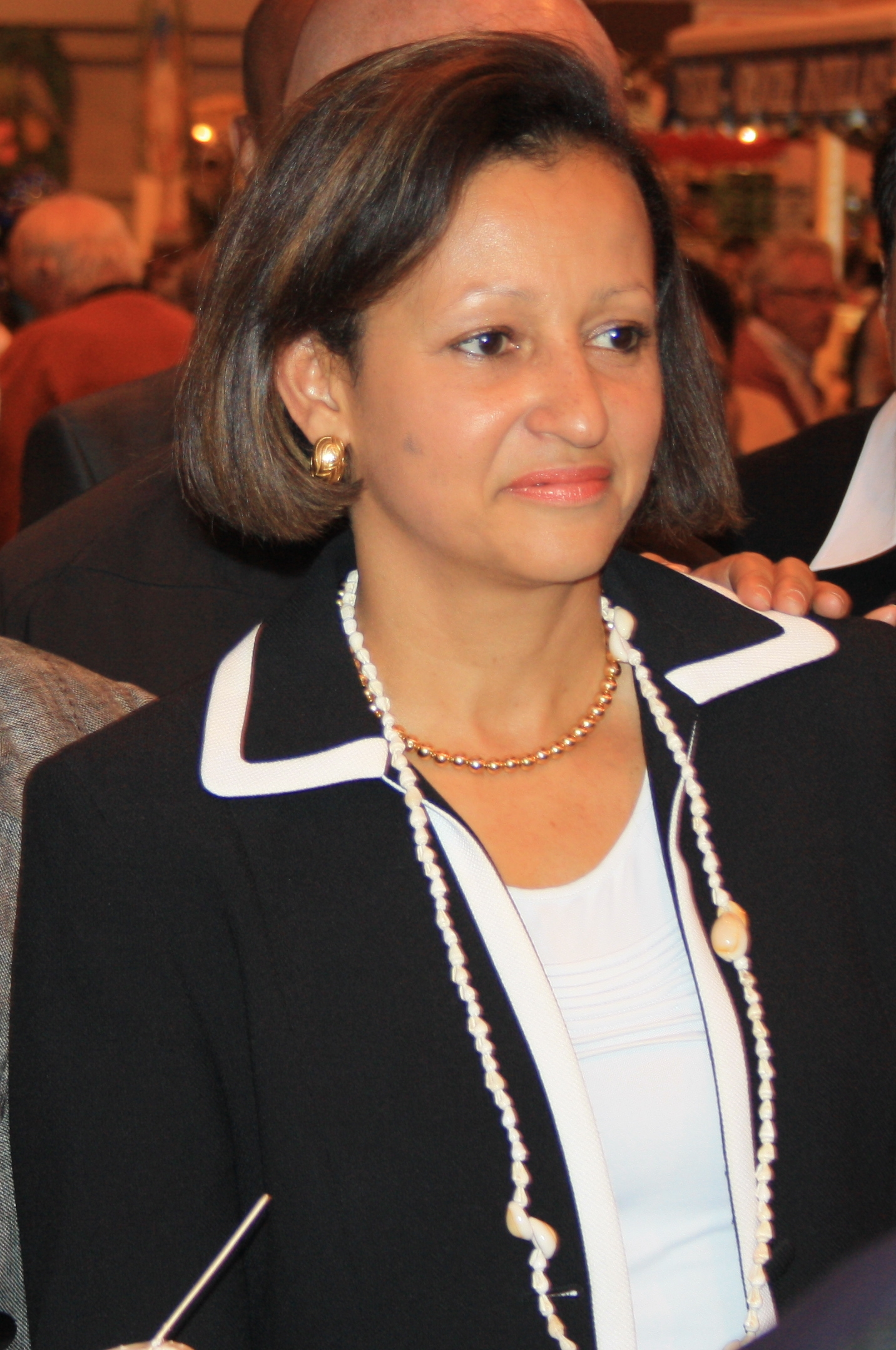 Marie-Luce Penchard in Foire de Paris 2011 fair in Paris, France